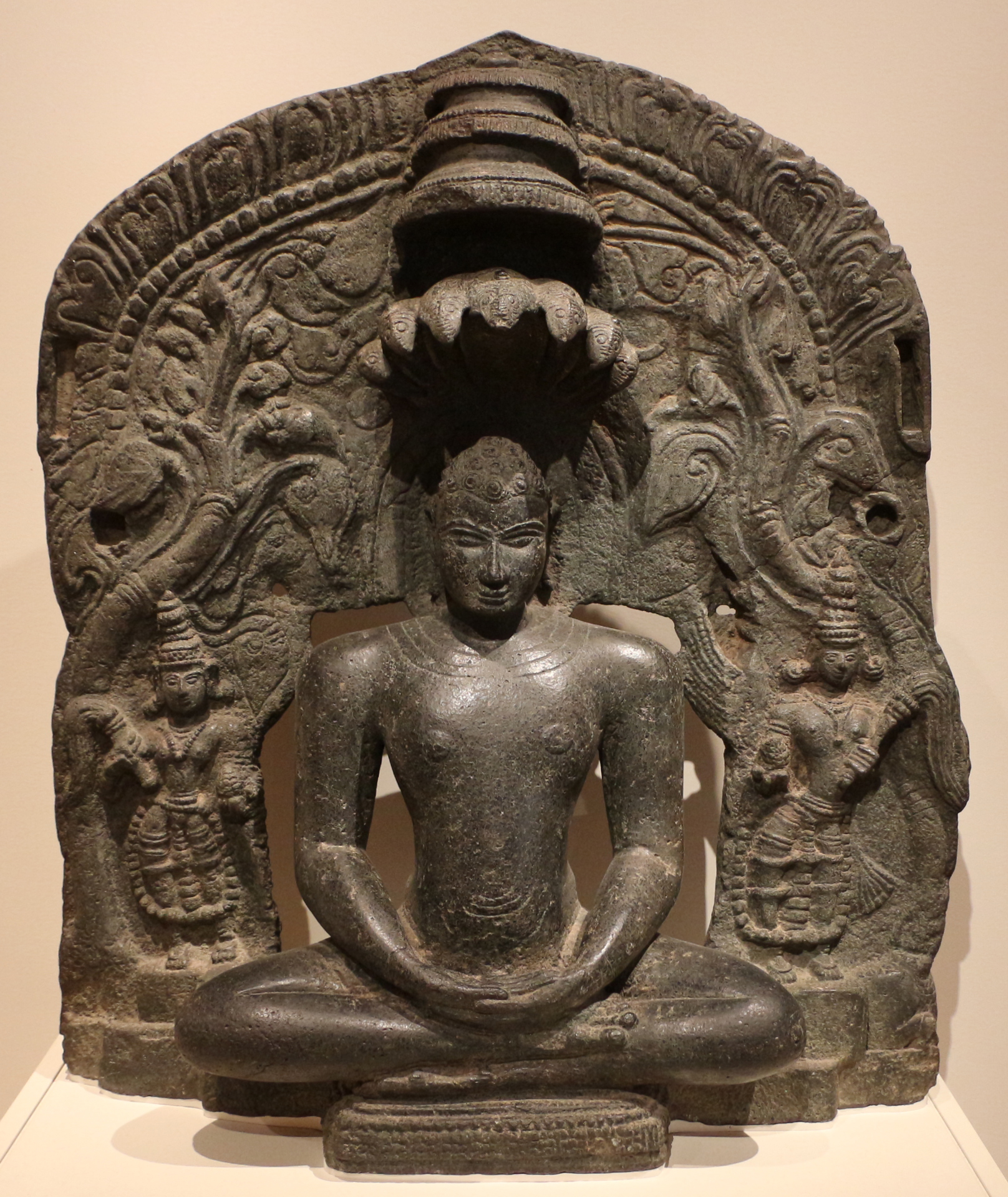 Art of India in the Art Institute of Chicago. Jain tirthankara seated in meditation in siddhasana.